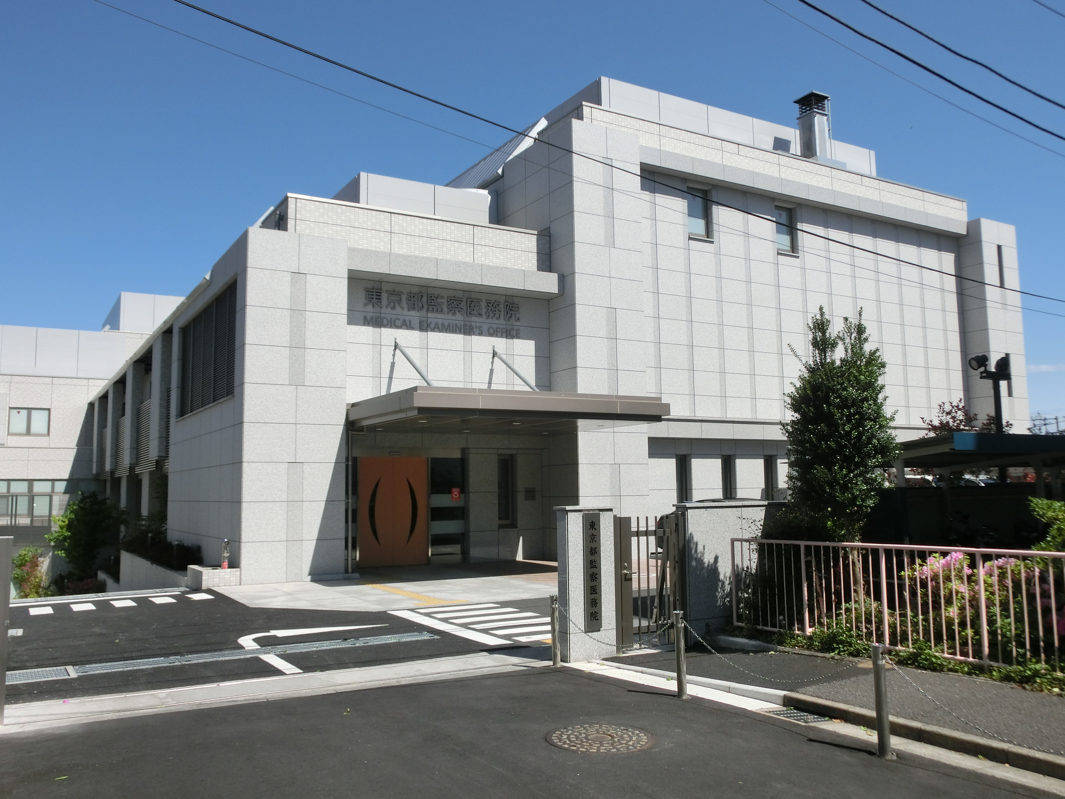 Tokyo Medical Examiner's Office